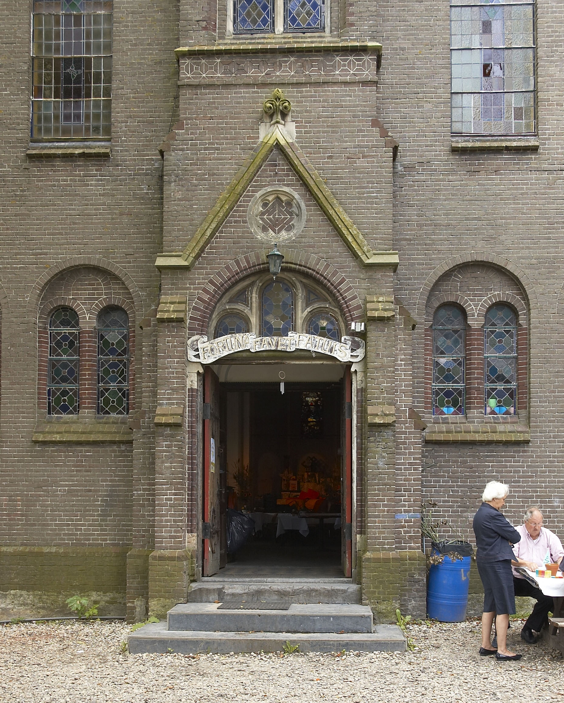 Entrance door of church in Ruigoord (Amsterdam), The Netherlands